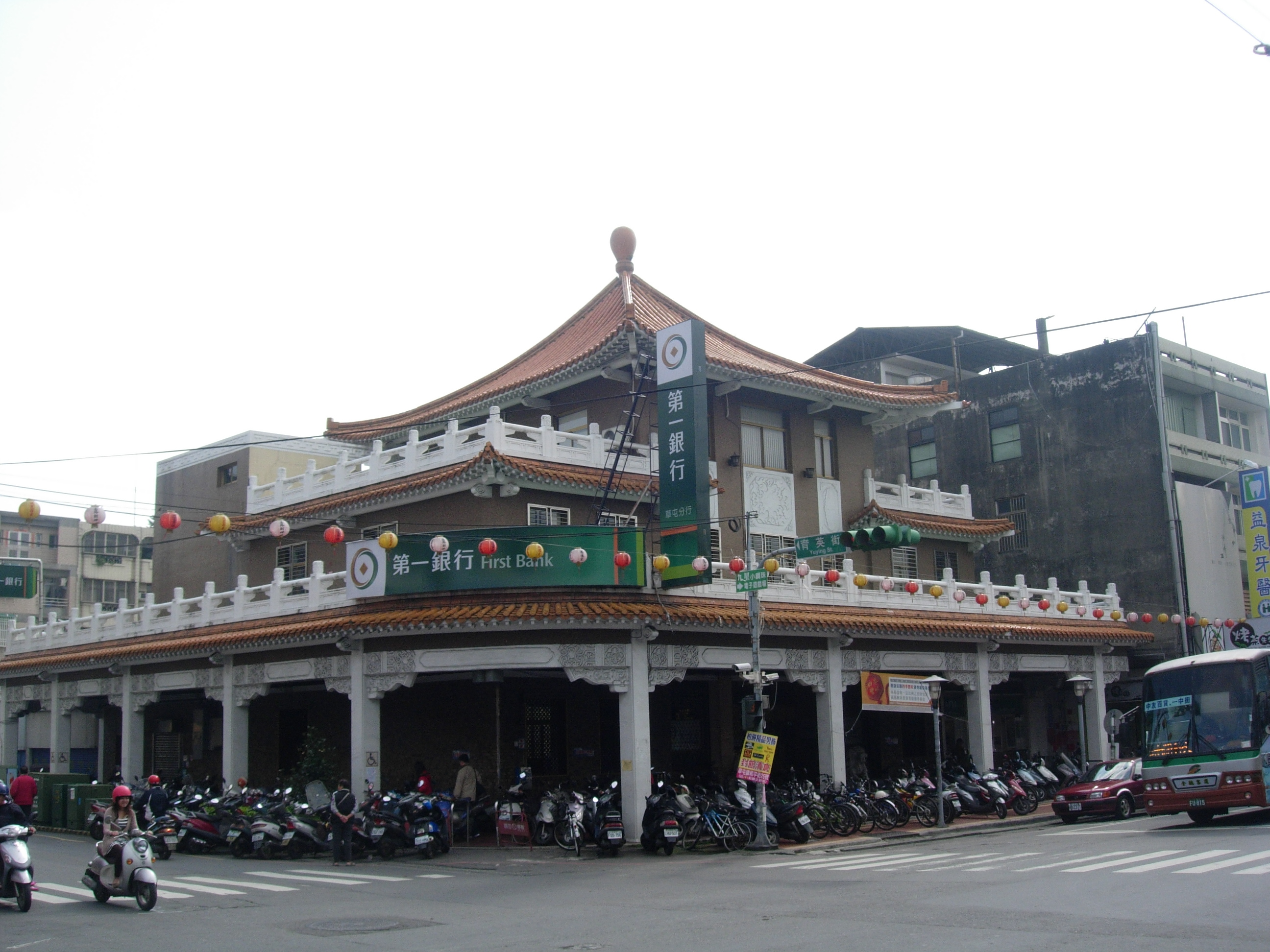 Tsaotun Branch, First Commercial Bank.